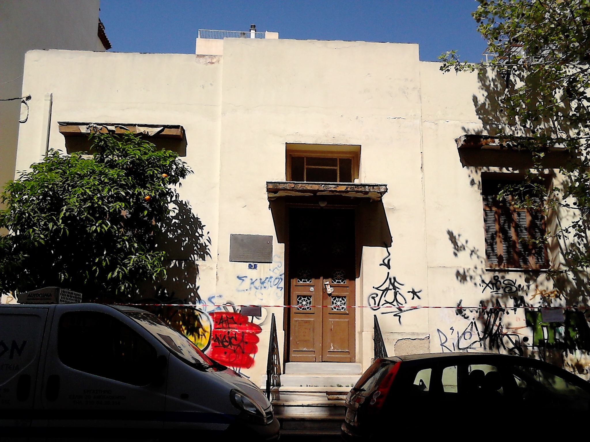 The house where the United Panhellenic Organization of Youth (EPON) was founded on 23 February 1943. Doukissis Plakentias Street 3 Ampelokipoi, Athens.